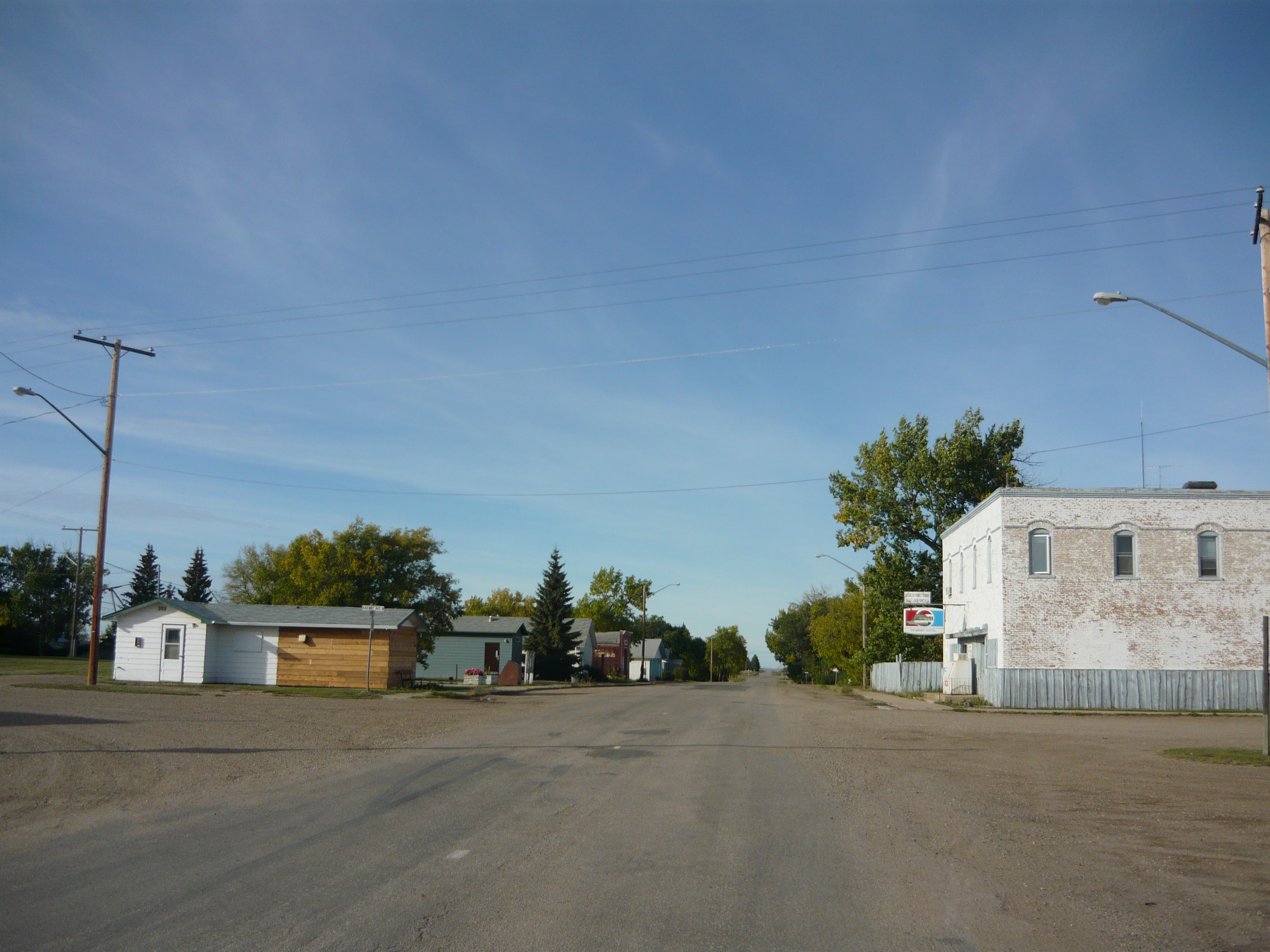 Main Street in Maymont, Saskatchewan, Canada. The white building on the right is the Maymont Hotel. Photo taken from the railroad crossing, looking northward.